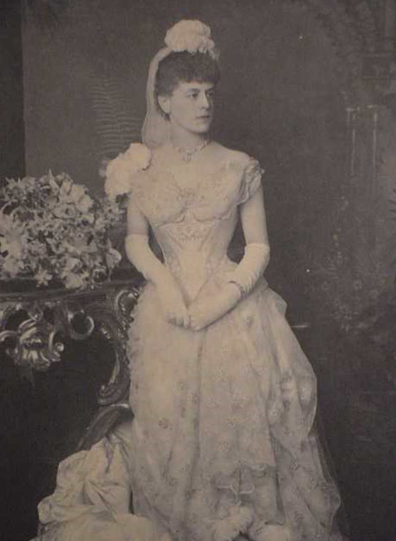 Hebe Gertrude Barlow, wife of Harding Cox who owned Chorleywood House, 1890